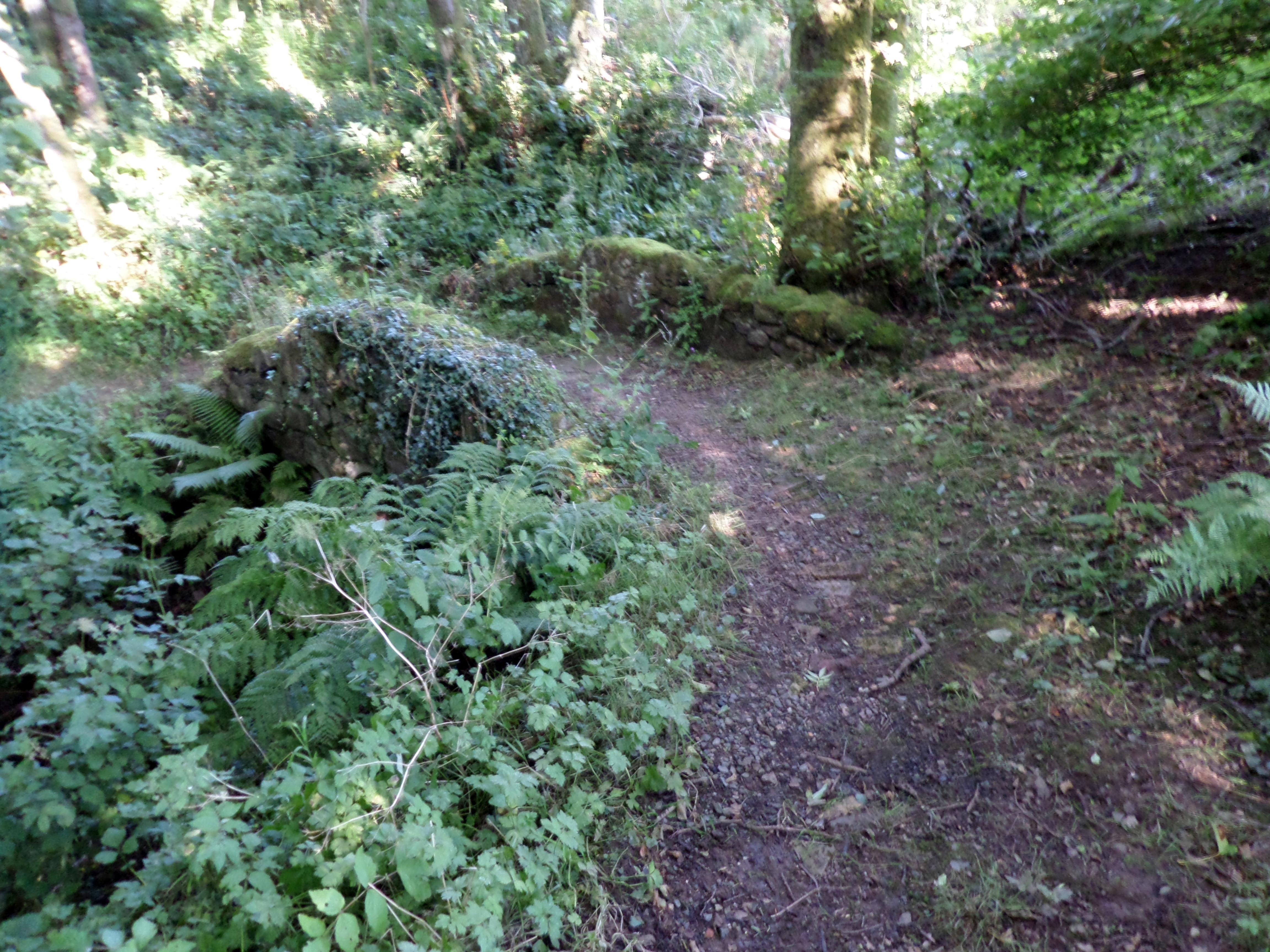 Middleton Burn Bridge - William Smith's Grave aka 'The Prophet's Grave' in the Brisbane Glen at Middleton near Largs, North Ayrshire, Scotland. IOt is thought that he died from Typhoid Fever.